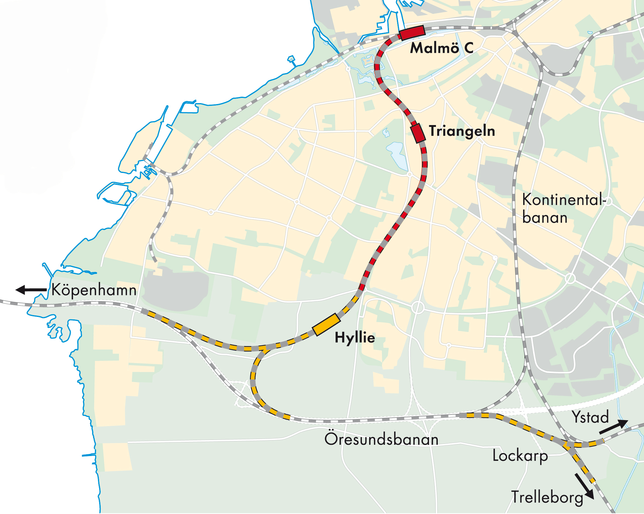 Route of the Citytunnel in Malmö, Sweden. The ways under ground (in the tunnel) are red, those over ground yellow. The gray ones are already existing.